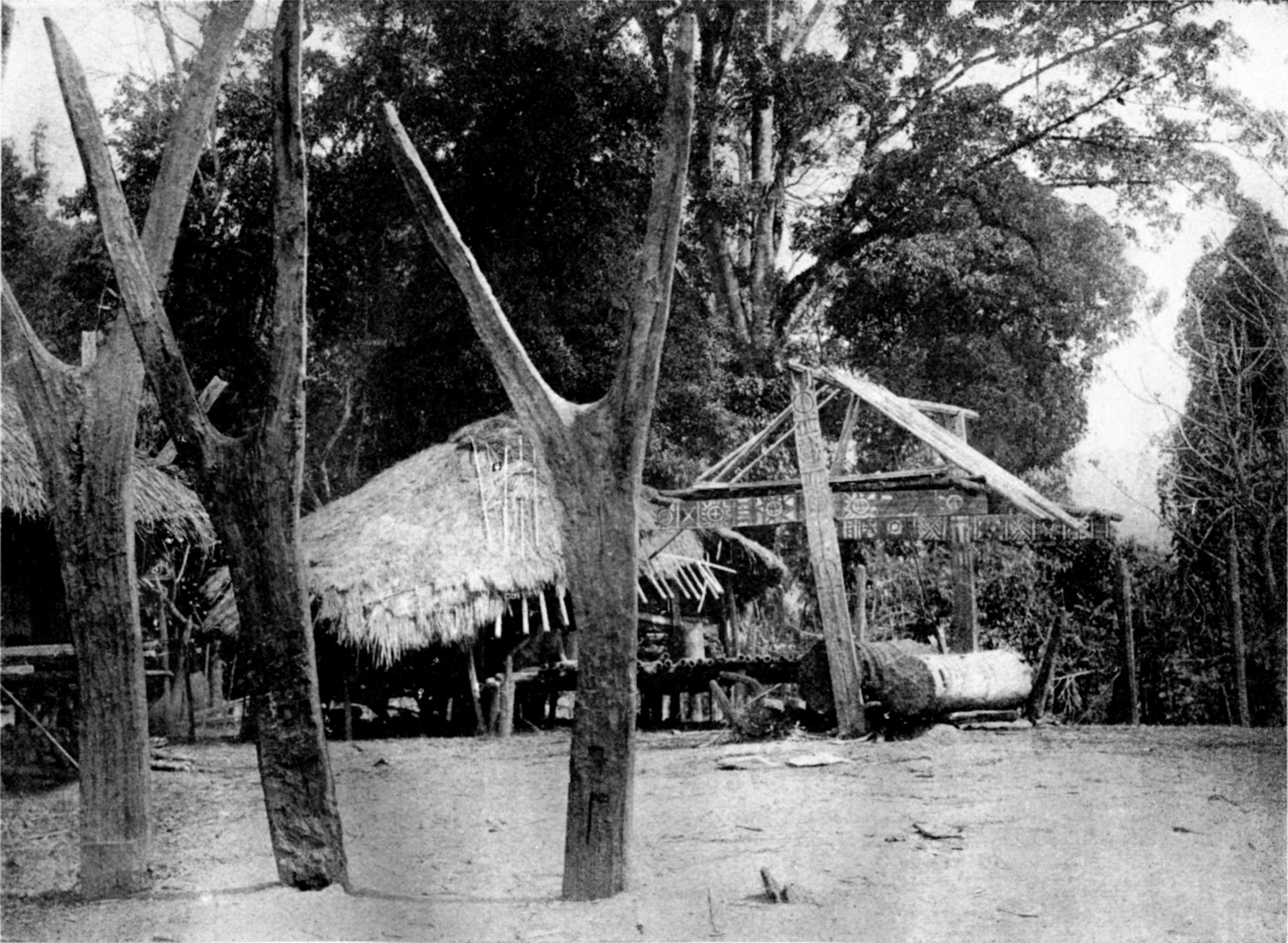 Wa Sacrificial Post.(Each forked post commemorates the slaughter of a buffalo)